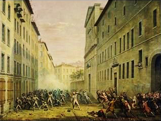 Journée des Tuiles à Grenoble（no white frame）